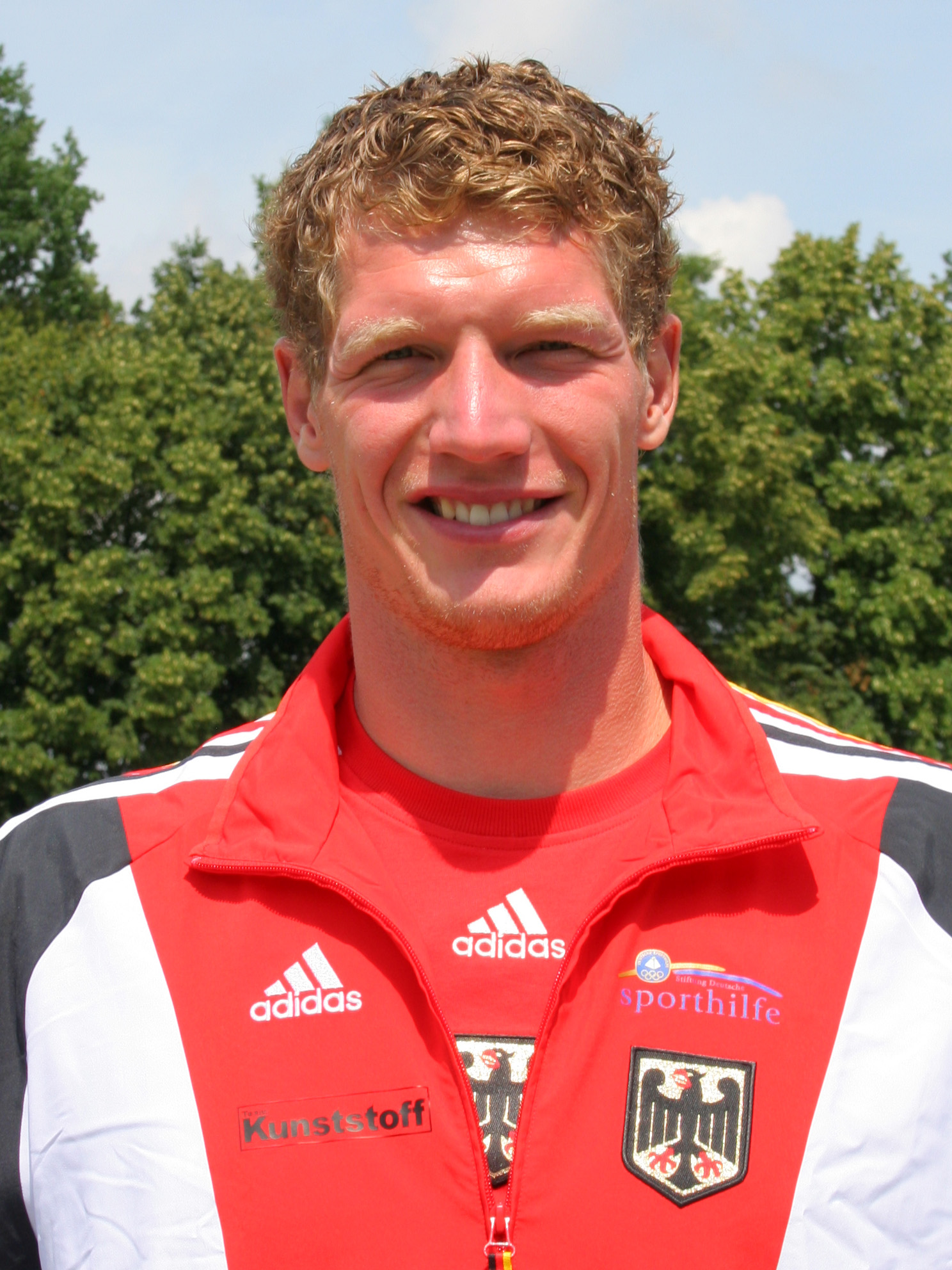 Stefan Holtz World Champion Canoe Sprint